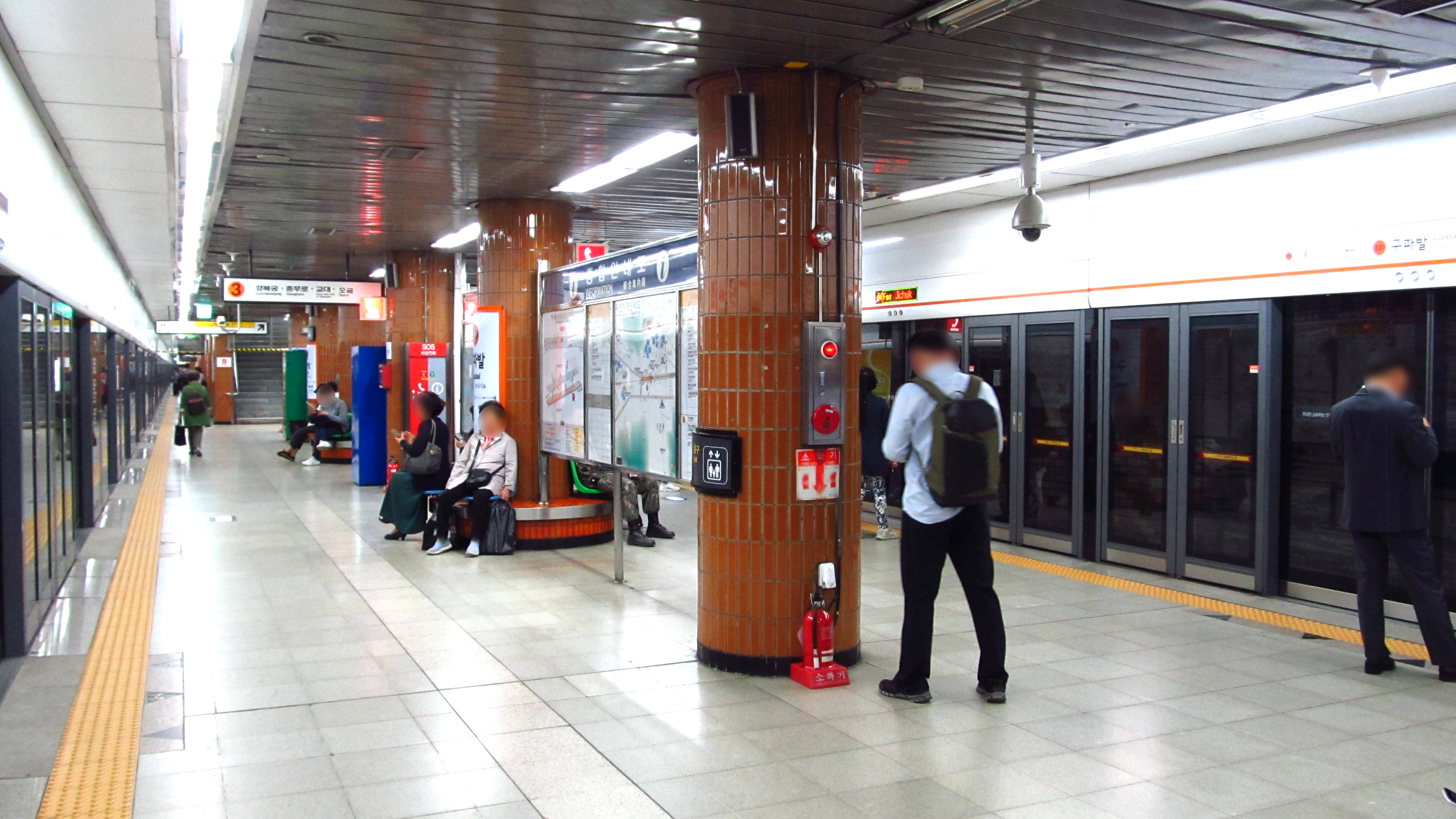 The platform at Gupabal Station on Seoul Subway Line 3 in Eunpyeong-gu, Seoul, Republic of Korea(South Korea)